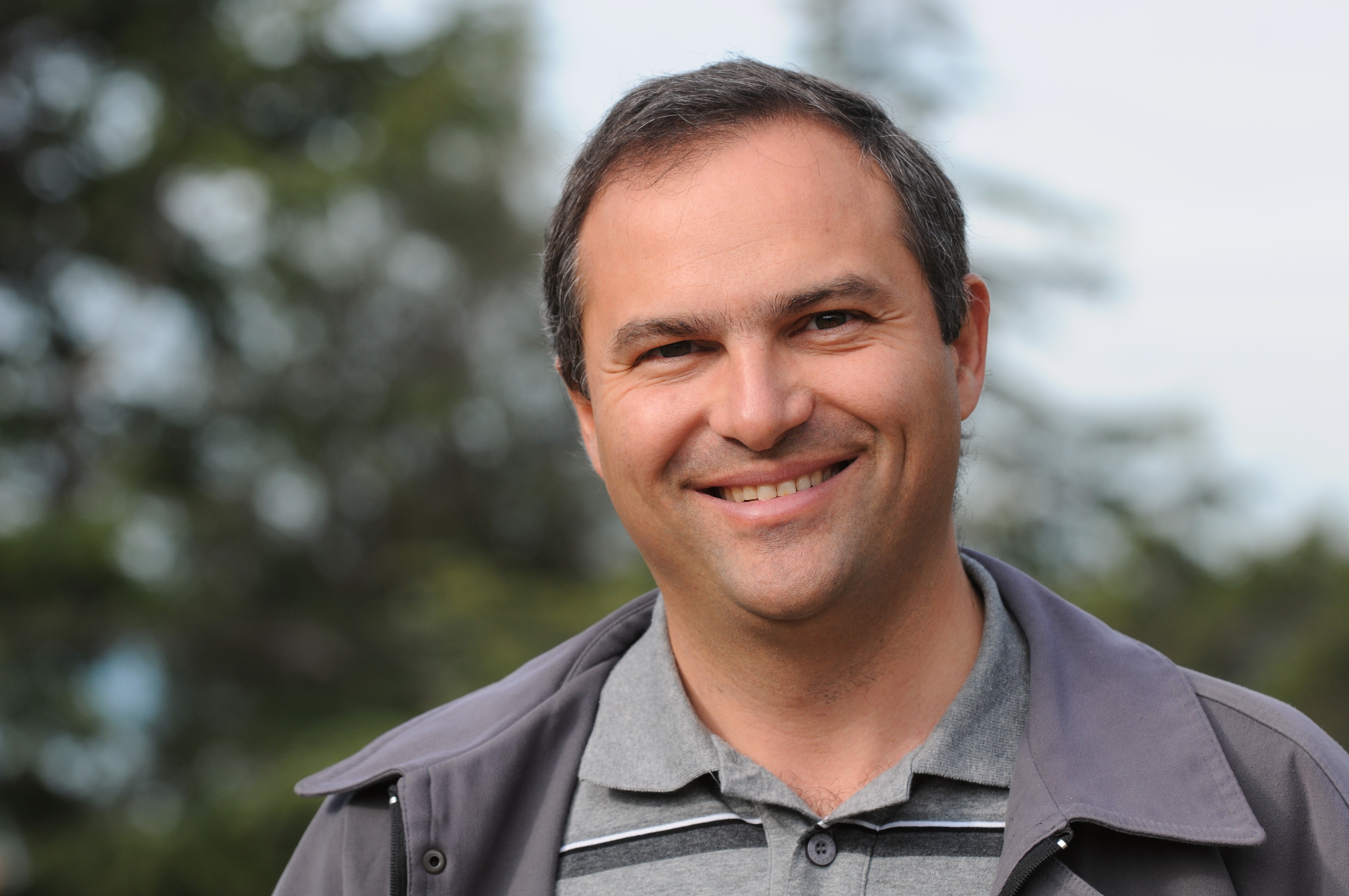 George Necula, Romanian computer scientist, professor at University of California, Berkeley, and inventor of proof-carrying code. Taken at the grounds of the Pacific School of Religion, Berkeley, California, United States.